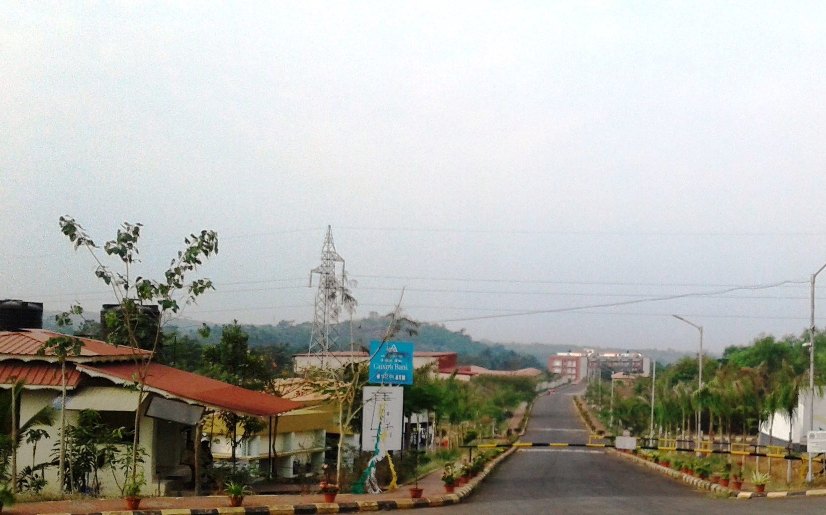 Kasaragod - Kanhangad road, Kasaragod District, Kerala state, India.